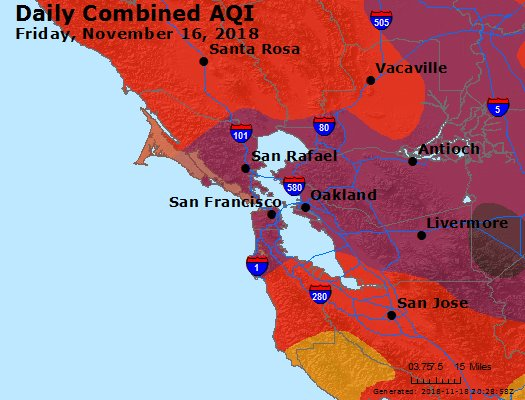 Air quality map by US Environmental Protection Agency of San Francisco Bay Area on November 16, 2018 showing Air Quality Index of unhealthy (red), very unhealthy (purple), and hazardous (dark purple) due to smoke from Camp Fire in Butte County. This was uploaded to illustrate the Nov 2018 cancellation of San Jose Bike Party's monthly ride.